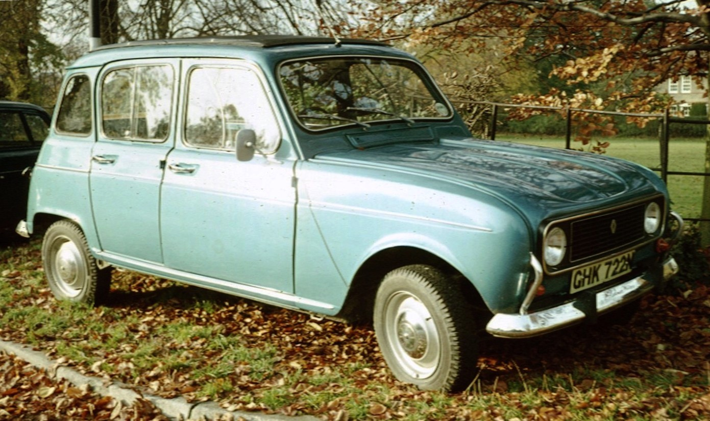 Renault 4 towards the end of the model life in West Road, Cambridge